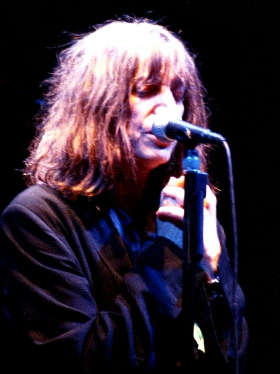 Patti Smith performing at Summer Sundae festival, De Montfort Hall, Leicester, United Kingdom.